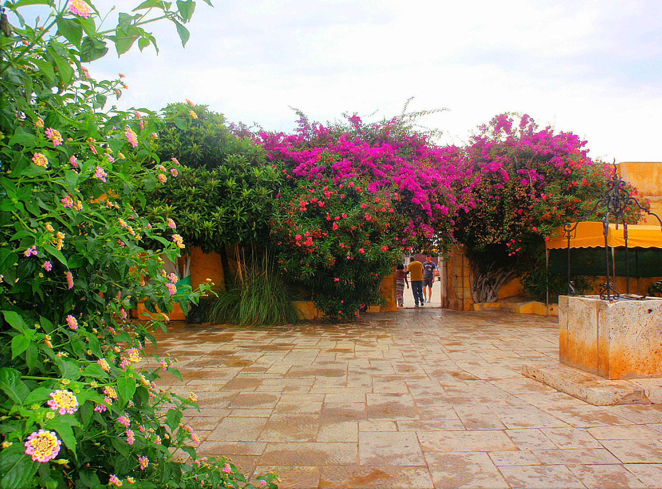 Inside the quadrant of the Fortress of Santa Catarina, Portimão, Algarve, Portugal